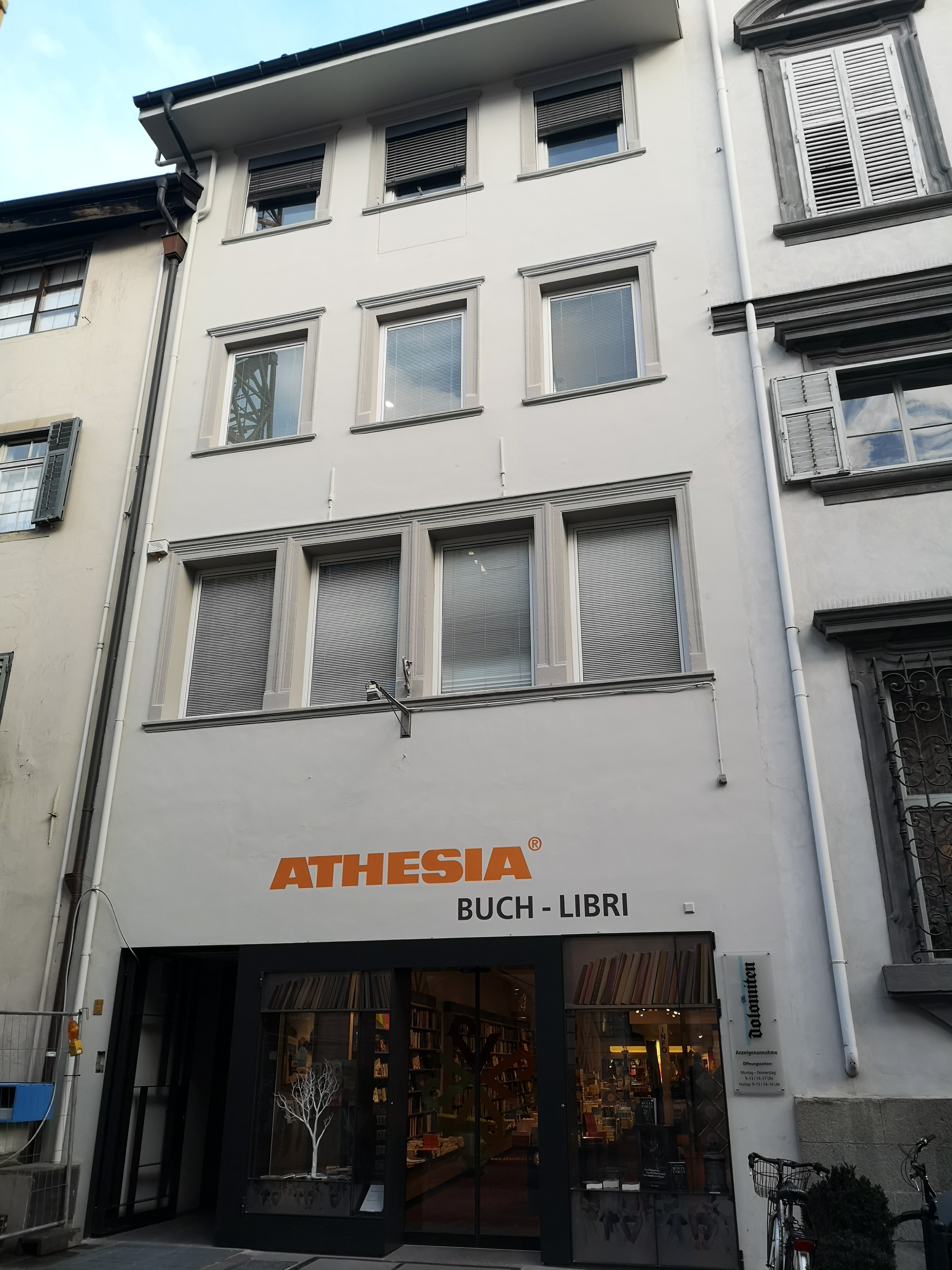 Athesia bookshop and office building in Bozen-Bolzano 2019